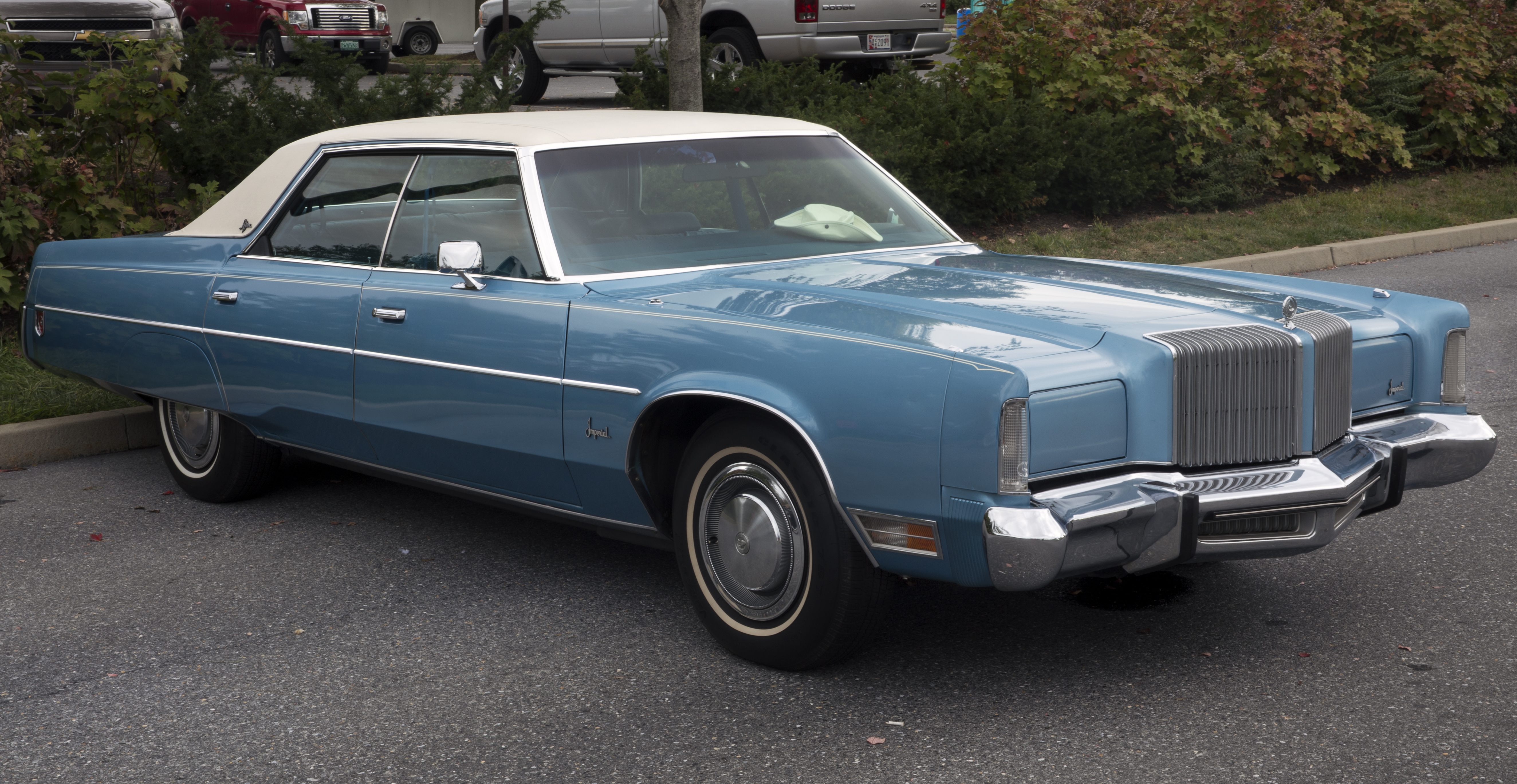 A 1975 Imperial LeBaron four-door Hardtop Sedan in the show area at Hershey 2019. 6102 in this bodystyle were built, in this the last year of the Imperials (until briefly brought back later).